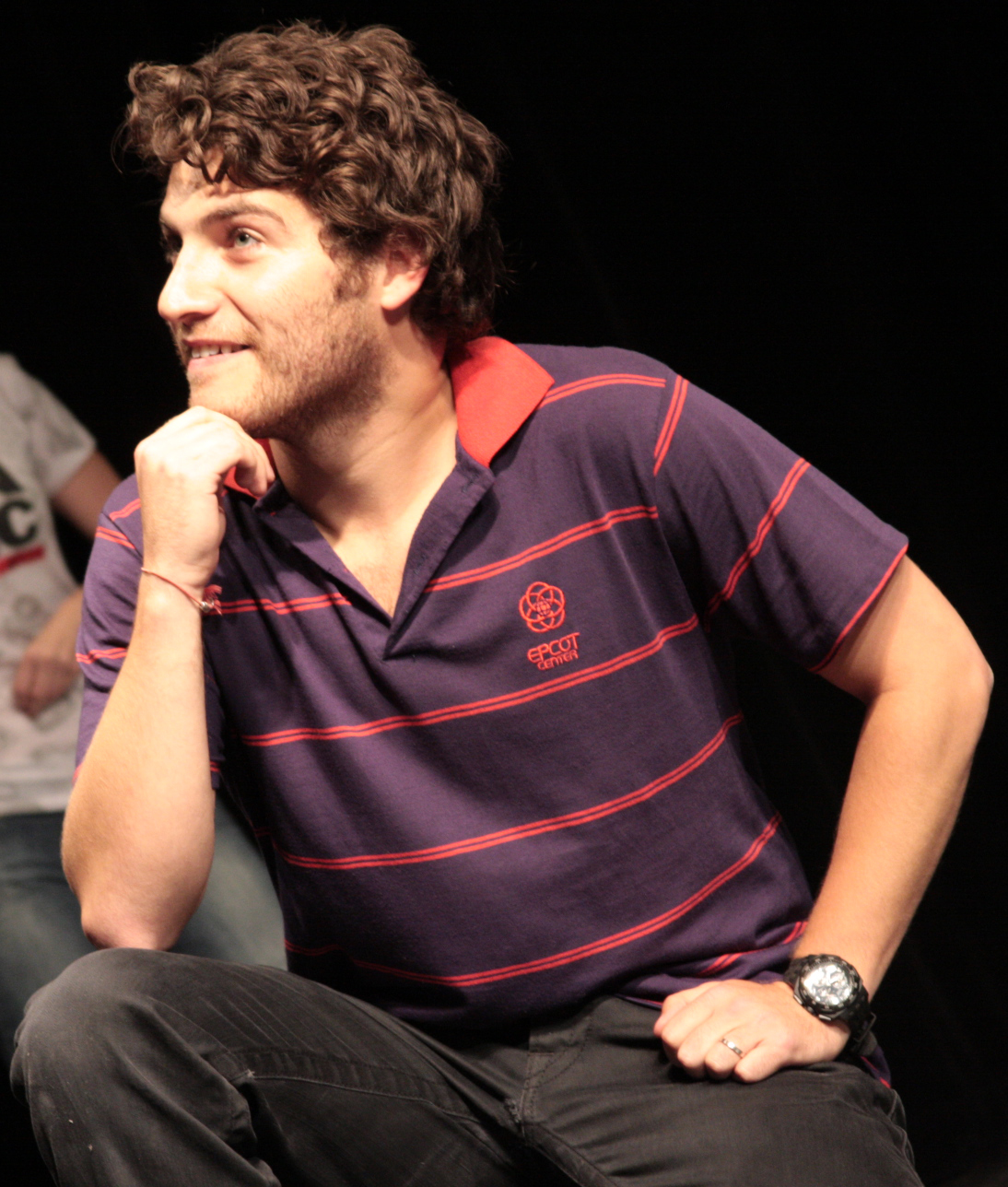 Adam Pally perfomed at the Upright Citizens Brigade Theatre in 2008